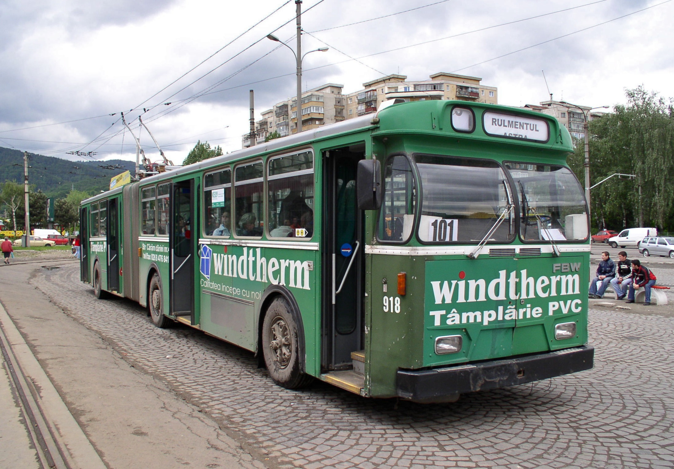 Braşov 918, a Hess-bodied FBW trolleybus built in 1975, was acquired in 2000 (probably through a dealer in secondhand buses) from the Basel trolleybus system (in Switzerland), where it had carried the same fleet number. It is still wearing its Basel fleet livery in this photo (but with local/Romanian advertising decals added). It is pictured laying over at the Saturn (or Astra) terminus of route 101.